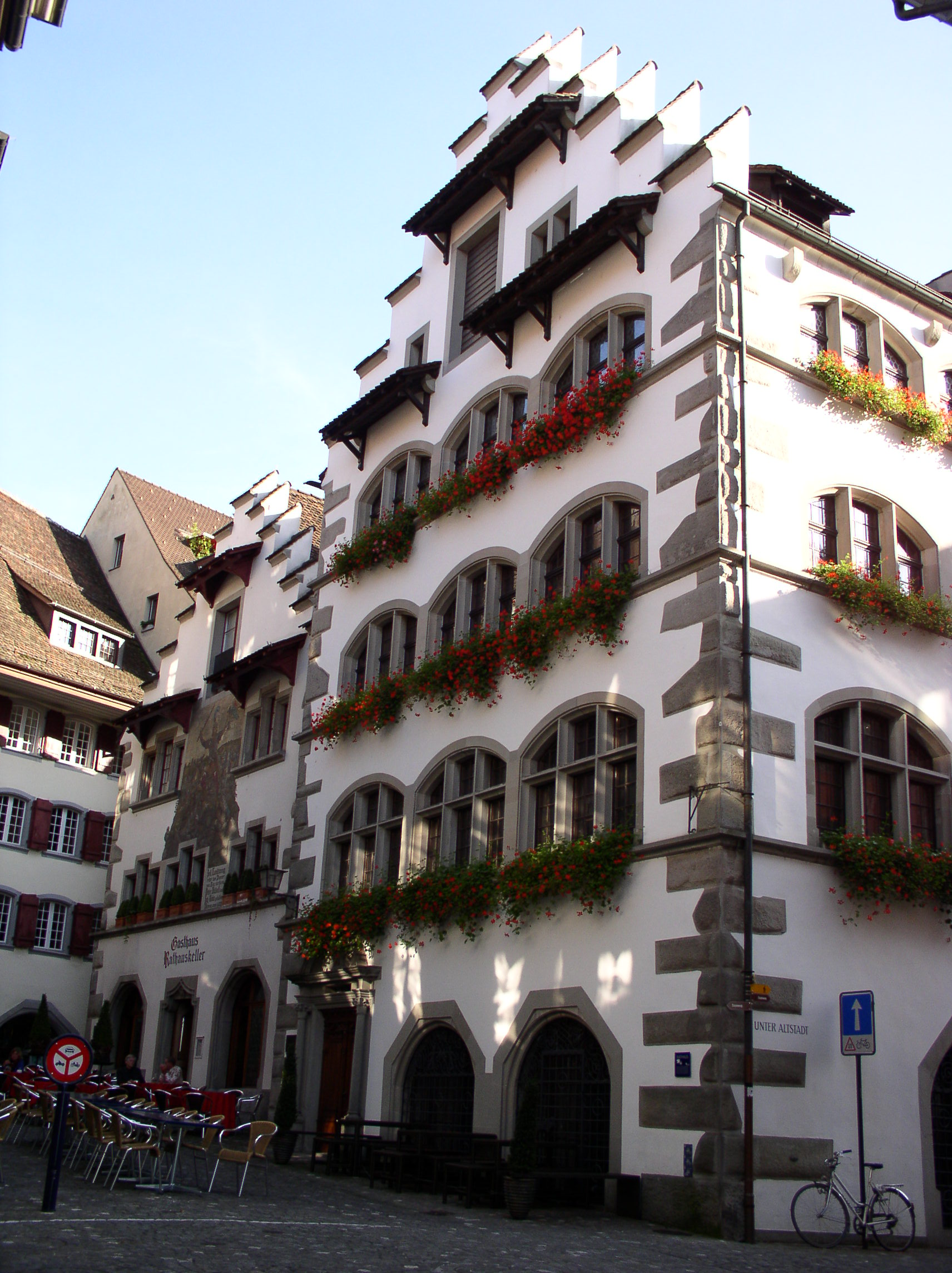 Description: Zuger Rathaus Source: photo taken by me, October 2005 Photographer: Baikonur